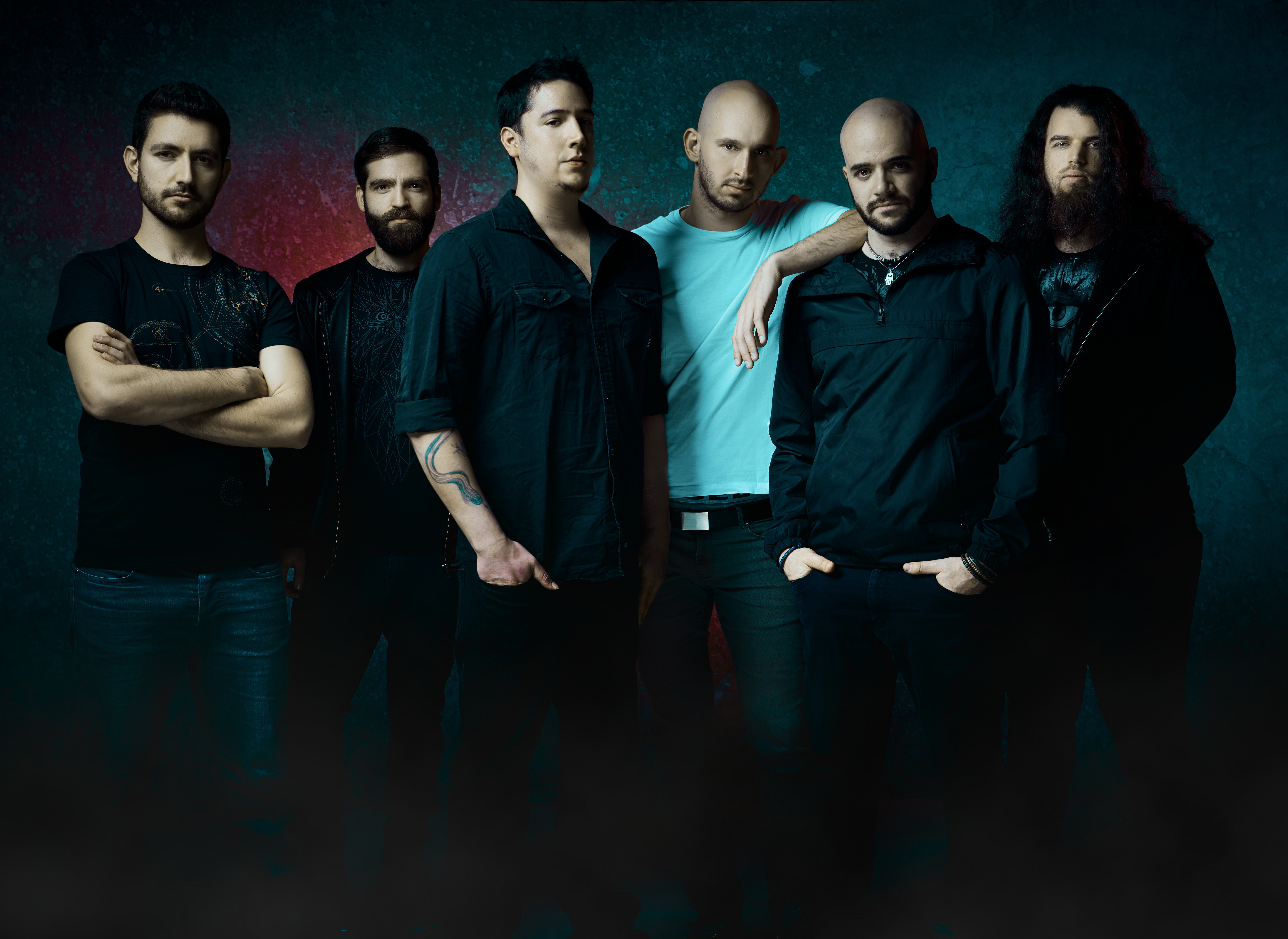 Band members of Distorted Harmony as of 2018. Uploaded with the consent of the content owner.